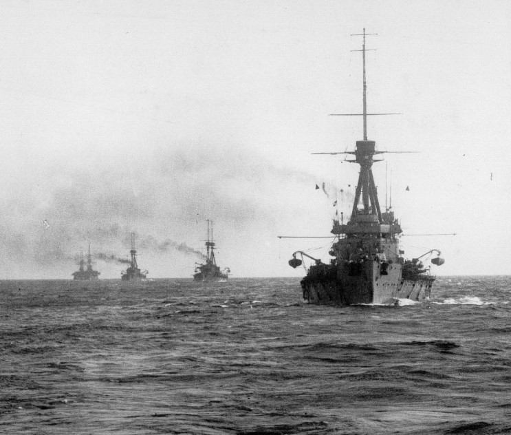 HMS Superb leading the fleet, somewhere before 1922.